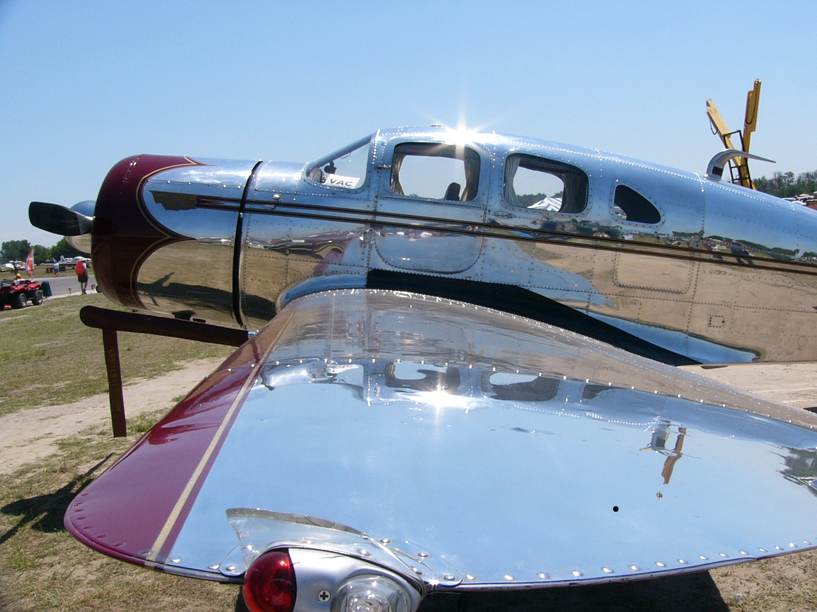 A Spartan Executive at Sun 'n Fun 2006